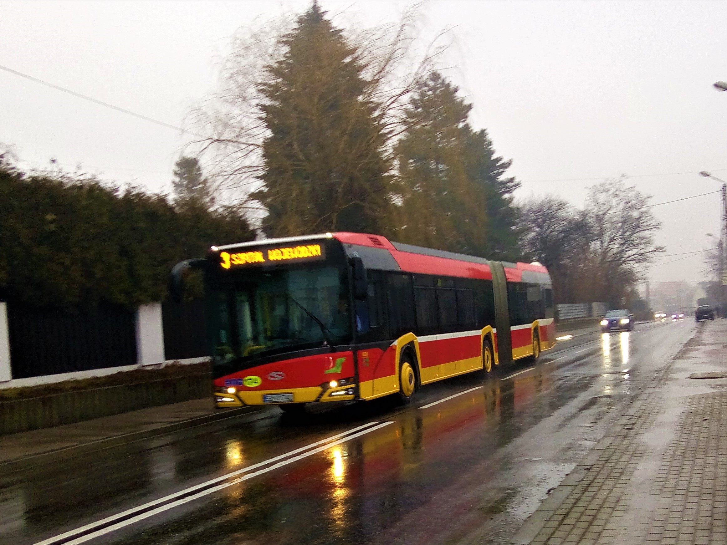 Solaris Urbino 18 IV generation No. 174 MZK Bielsko-Biała, Poland (line 3 direction Szpital Wojewódzki)